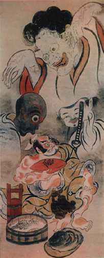 Ukiyo-e print of a Yokai, by Atosimatu.